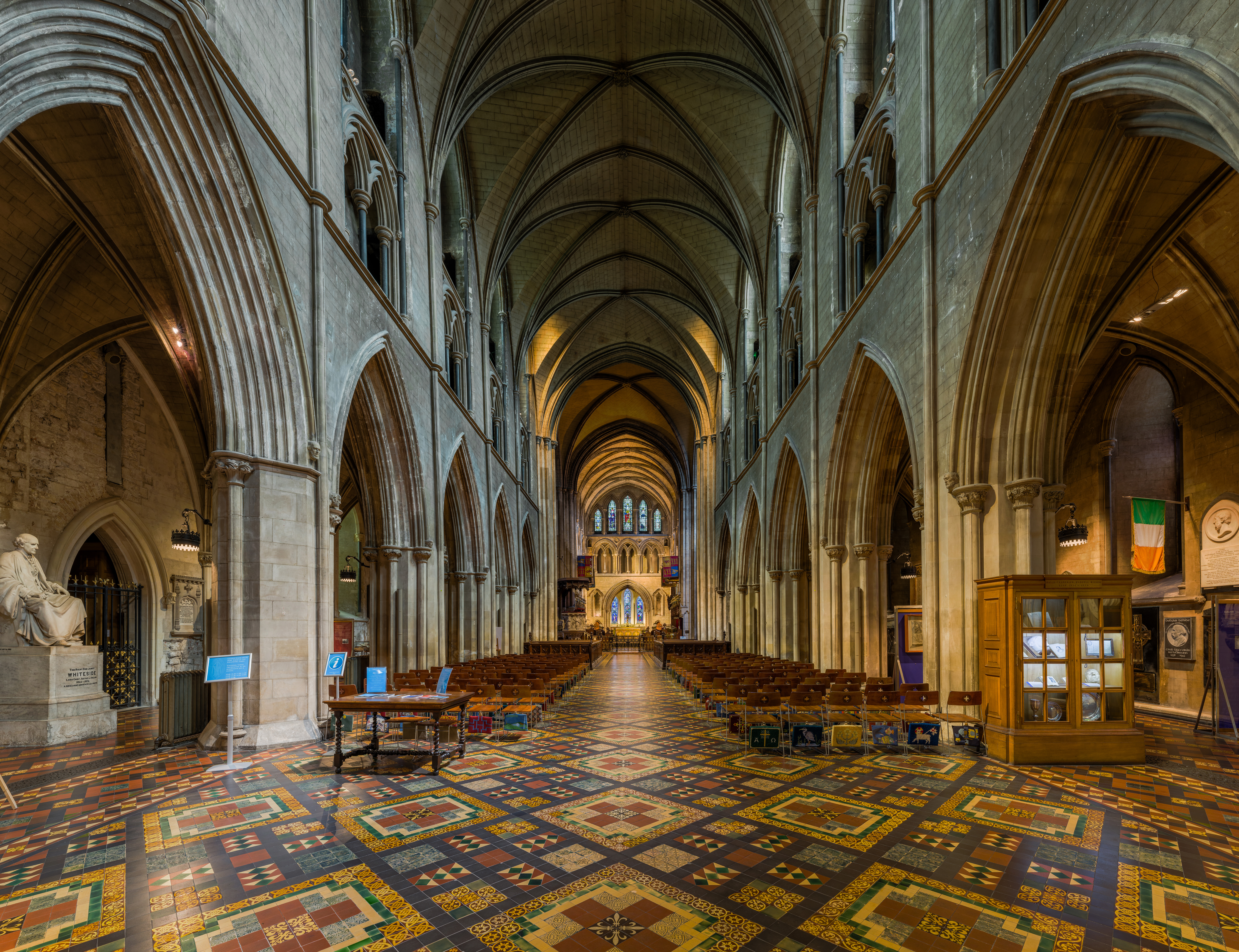 The nave of St Patrick's Cathedral in Dublin, Ireland, looking towards the choir.